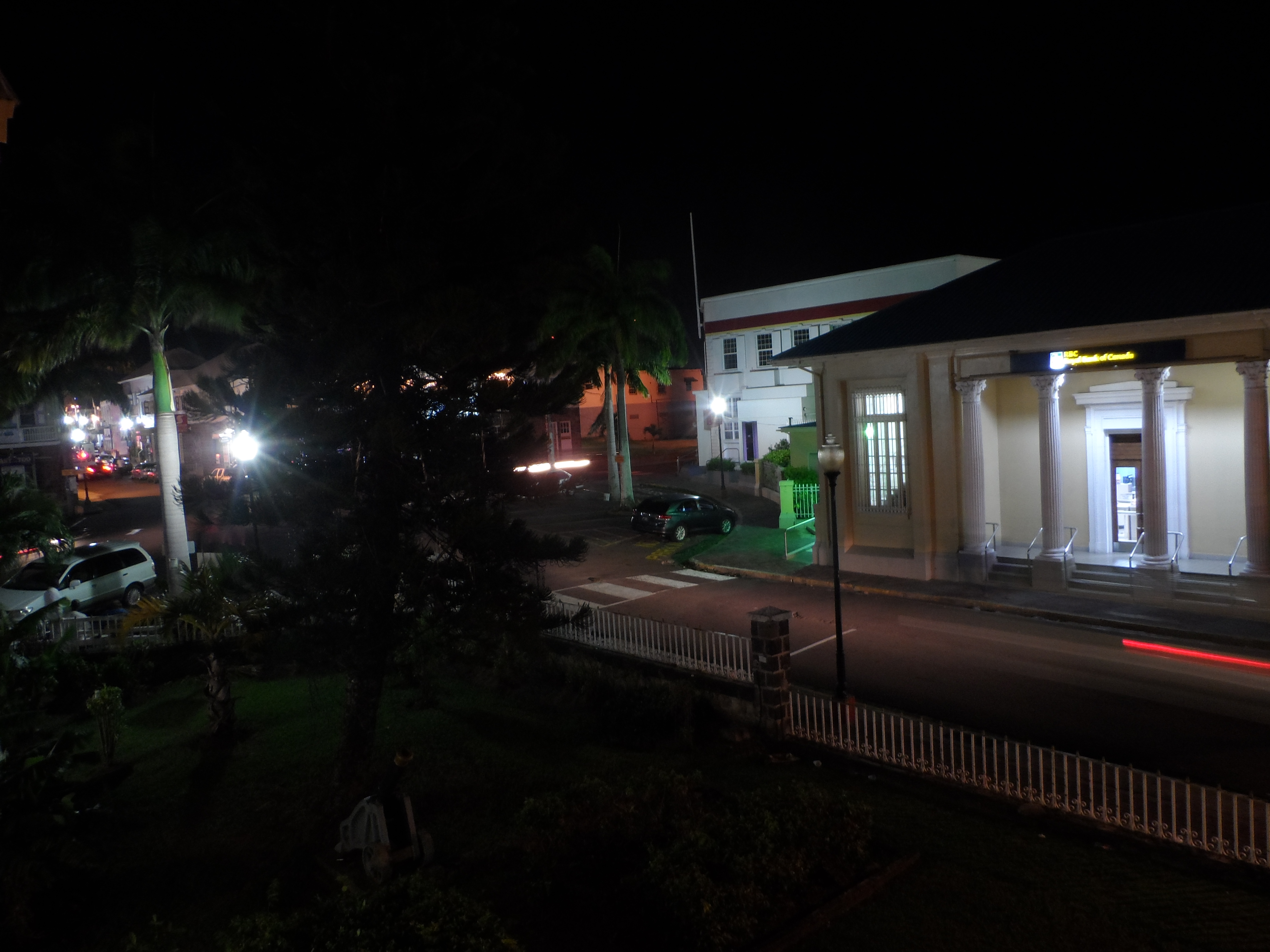 View from the Circus Grill restaurant in Basseterre, Saint Kitts and Nevis, including Fort Street